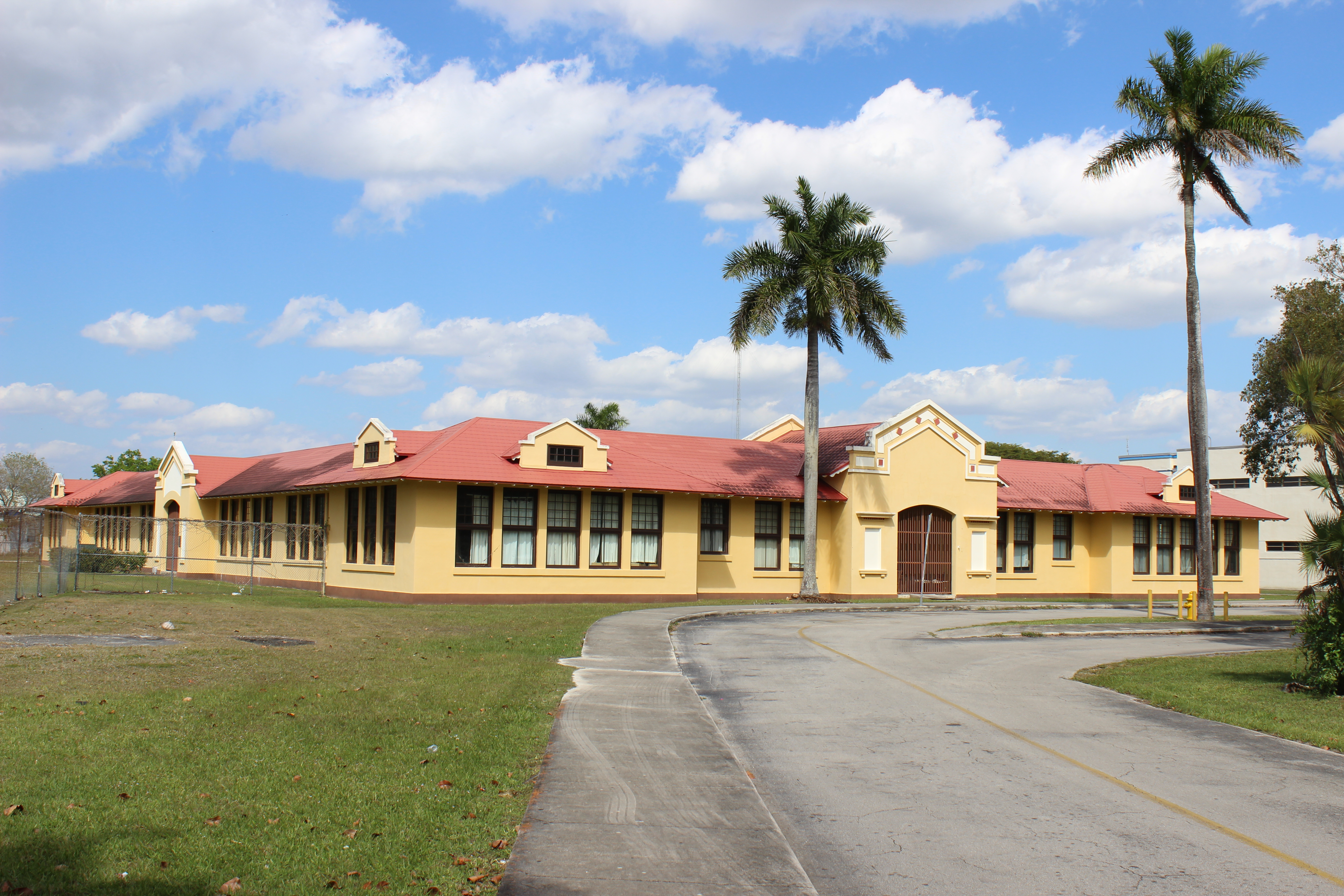 The 1916 Redland Farm Life School in Redland, Florida, closed after it was damaged by Hurricane Andrew in 1992